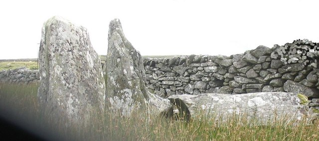 Upright stones at the eastern end of the largest of the Hengwm Cairns These are part of the southernmost of two extensive neolithic burial chambers, known as Carneddau Hengwm, found on this site. The 18thC traveller, Thomas Pennant writes of a third chamber, but all evidence of this has now disappeared.